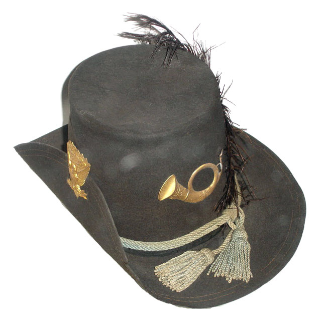 Civil War Hardee cap taken by Hal Jespersen at Gettysburg National Military Park museum, June 19, 2005.